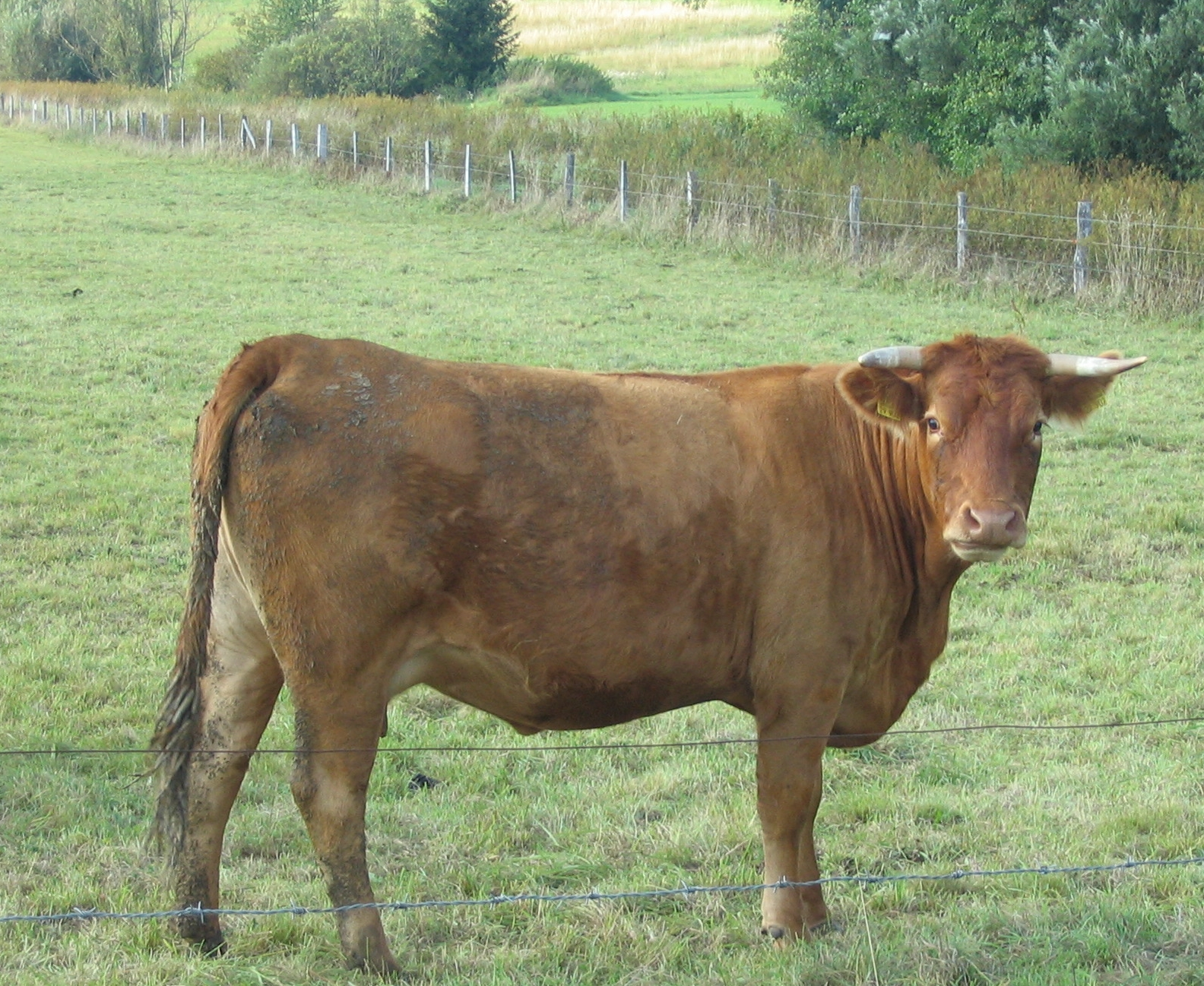 Limousin cow near Fronhofen/Hunsrueck